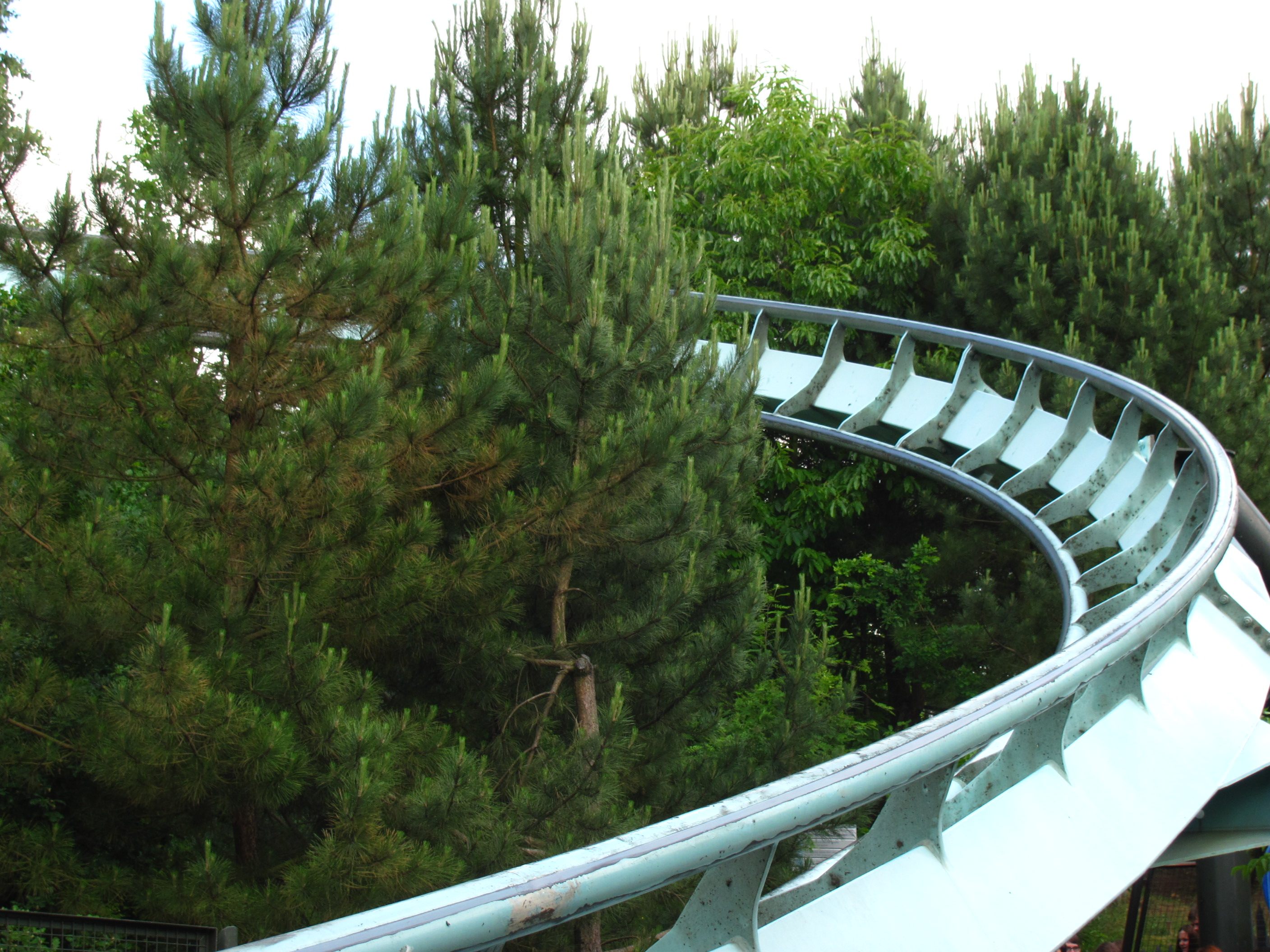 Alton Towers 246